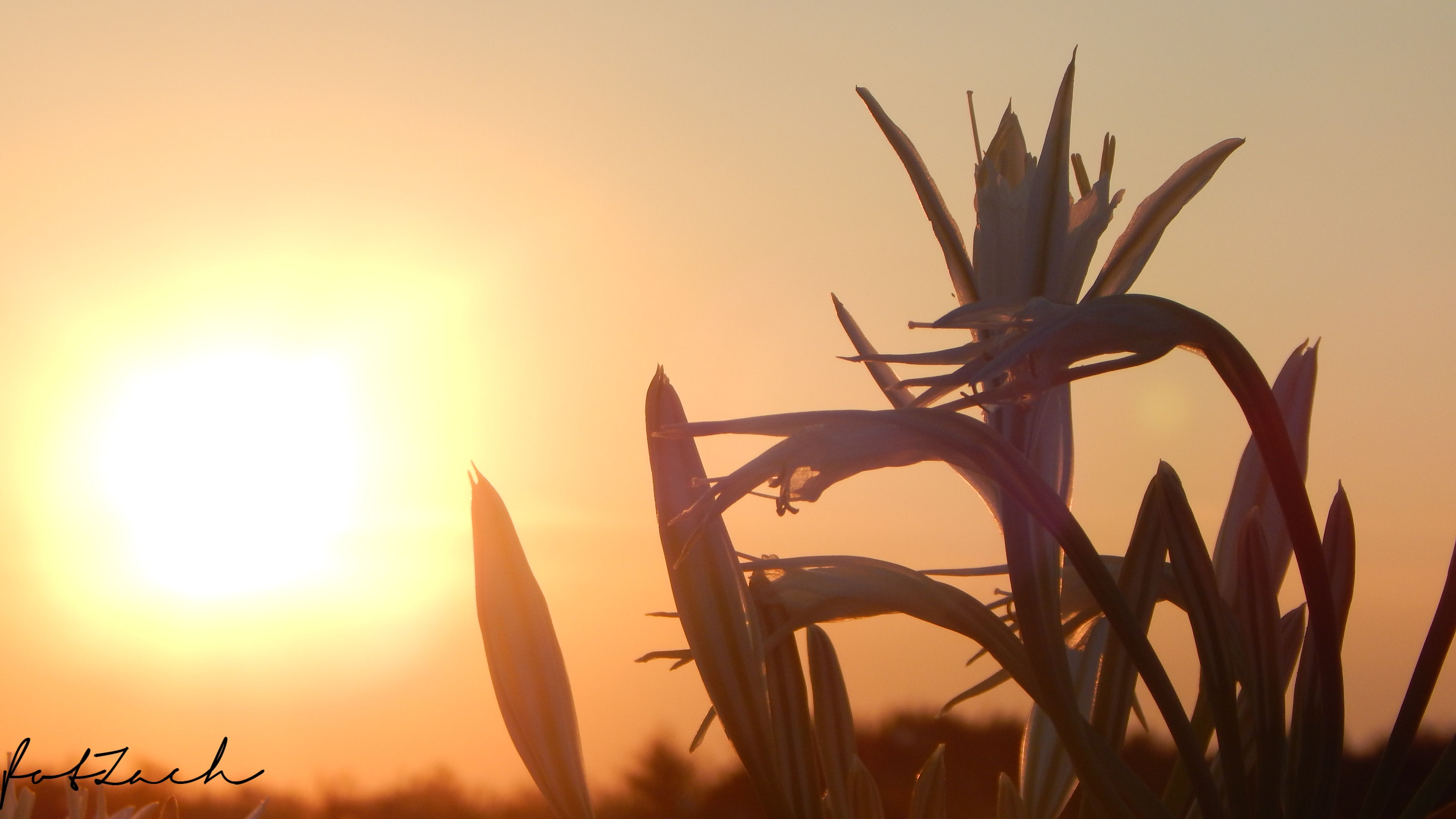 This is a photography of Natura 2000 protected area with ID GR4110001